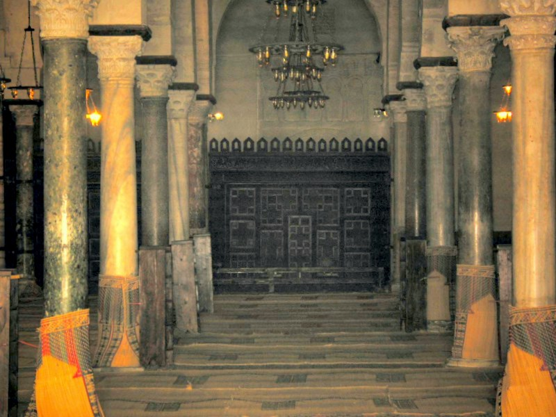 Maqsura and columns in the Prayer hall of the Great Mosque of Kairouan, Tunisia.